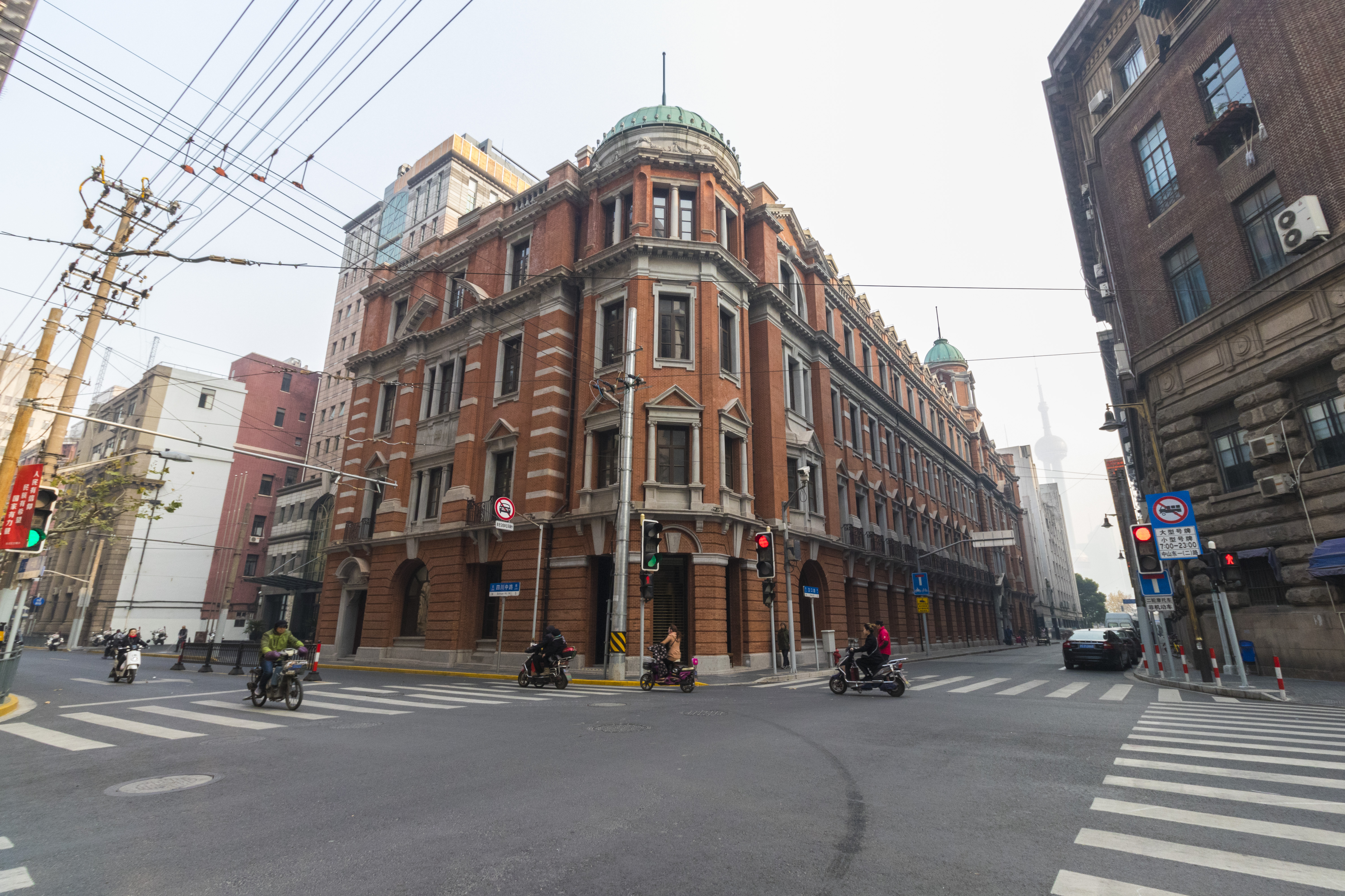 Former site of Bank of China, in Hankou Road, Shanghai